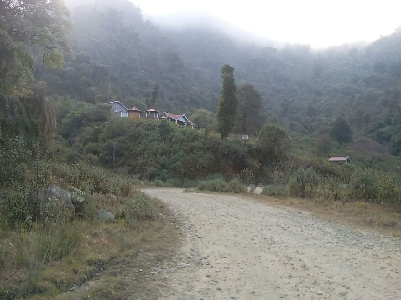 This photograph has been capture during the birding tour of GoingWild from Khonoma Nature Conservation & Tragopan Sanctuary, Kohima, Nagaland on 25.12.2016.